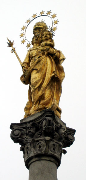 The Marian column in Pinkafeld, Burgenland, Austria